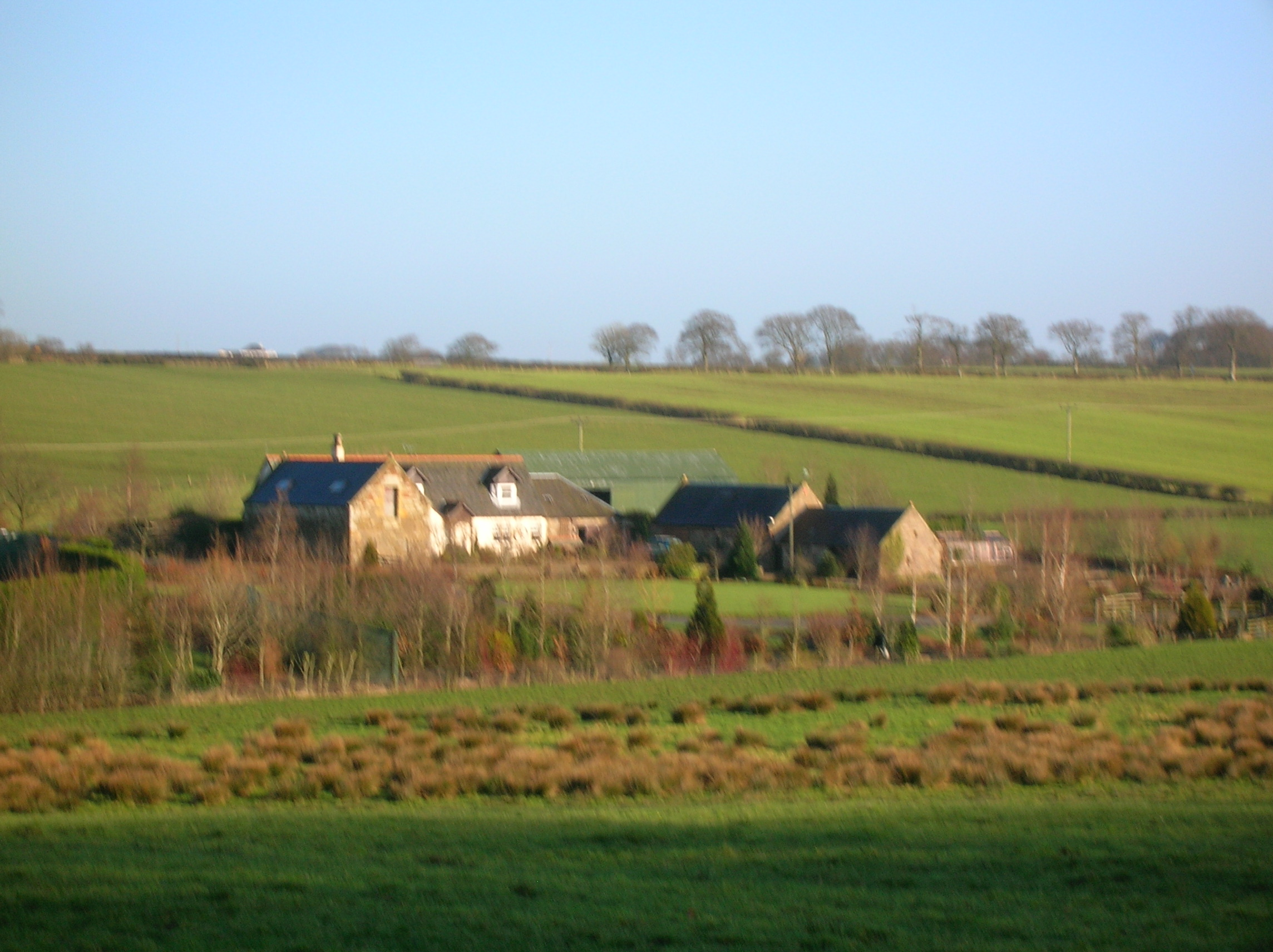 A view of Kirkmuir Farm, East Ayrshire, 2007.